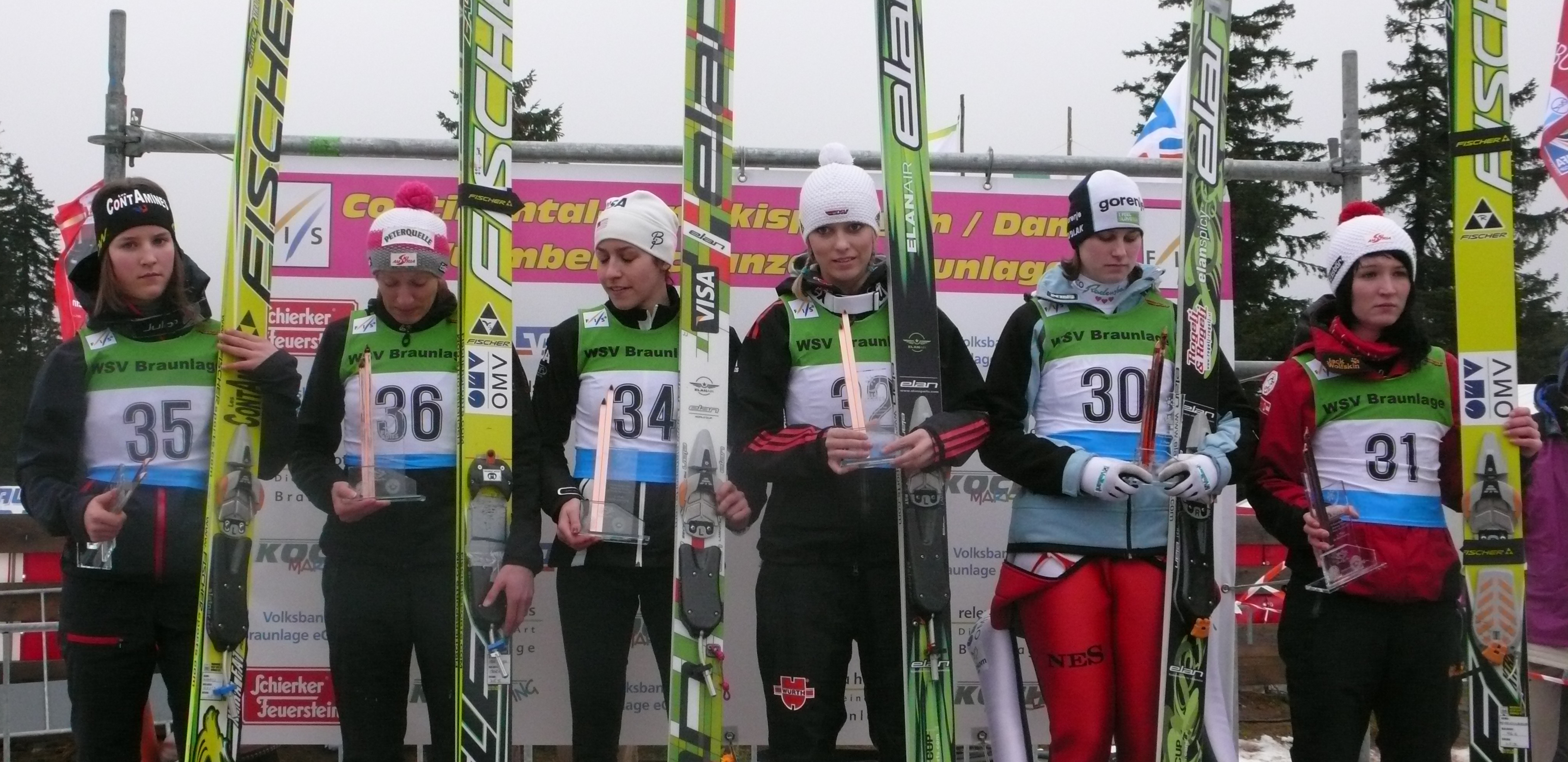 Coline Mattel 1st, Daniela Iraschko 2nd, Jessica Jerome 3rd, Melanie Faisst 4th, Eva Logar 5th, and Jacqueline Seifriedsberger 6th of the FIS-Ladies-Winter-Tournee from 2011-01-08 to 2011-01-16.